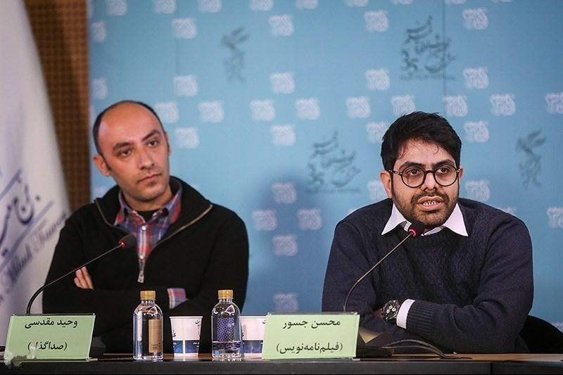 Media conference of Invitation at 35th Fajr International Film Festival